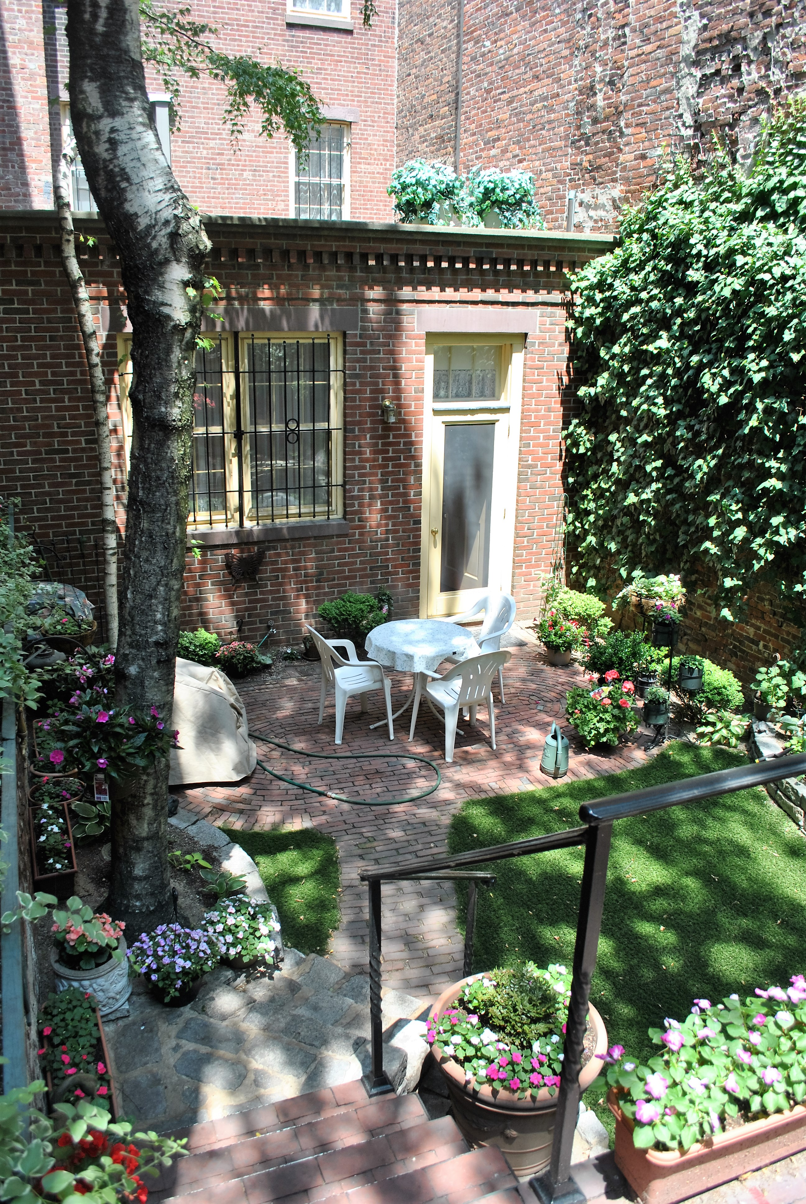 Image originally published in Queer Places: Retracing the Steps of LGBTQ people around the World Authored by Elisa Rolle